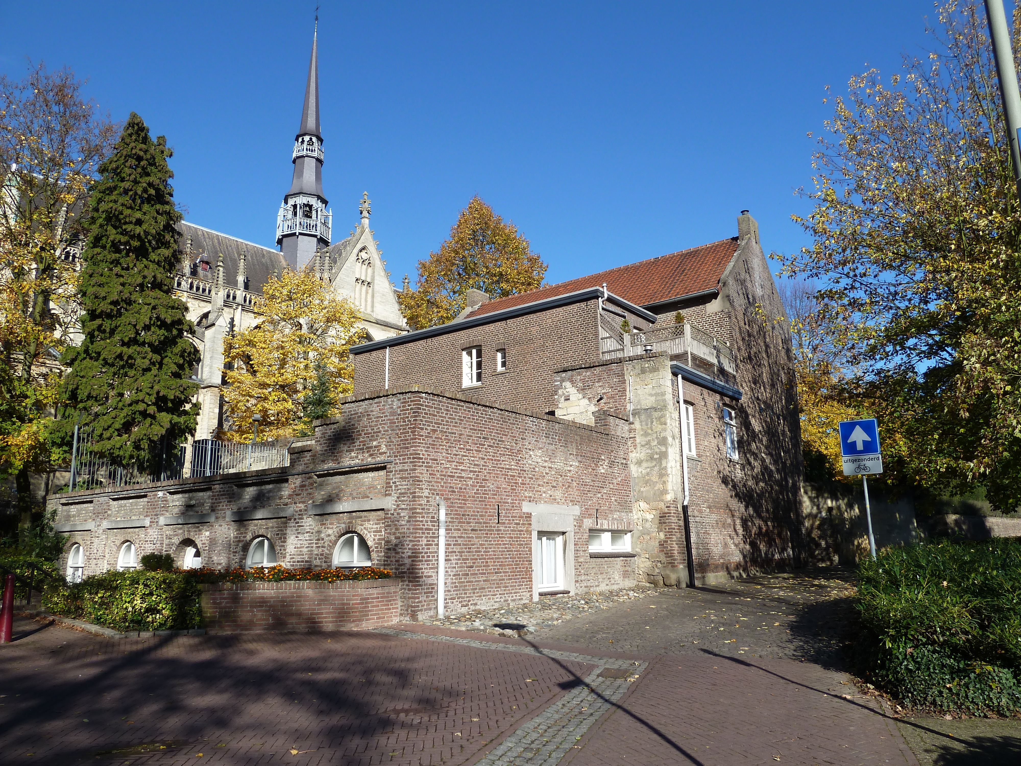 Markt 21, Meerssen, Limburg, the Netherlands